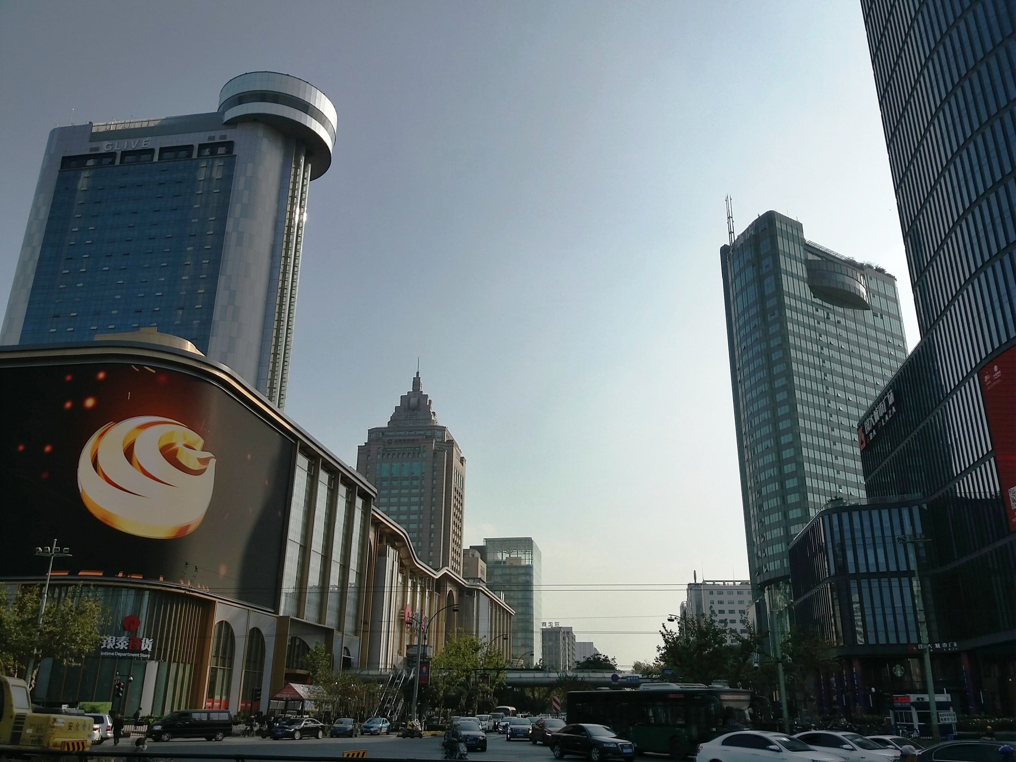 Wulin Square